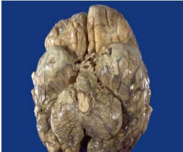 Figure 2. The gross pathological findings of the brain of case 2 at autopsy showing gelatinous exudates at the base of the brain. There is also associated brain oedema and congestion.